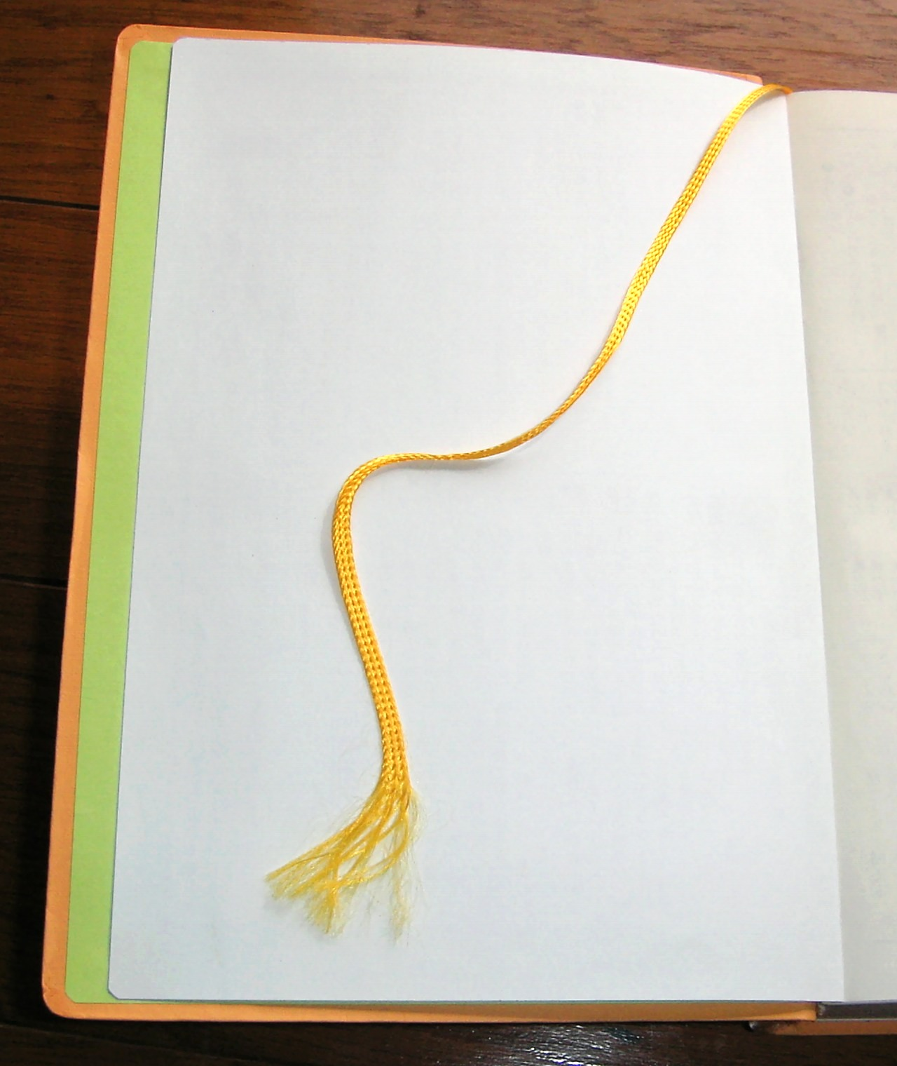 Bookmarks made of strings. Spin.